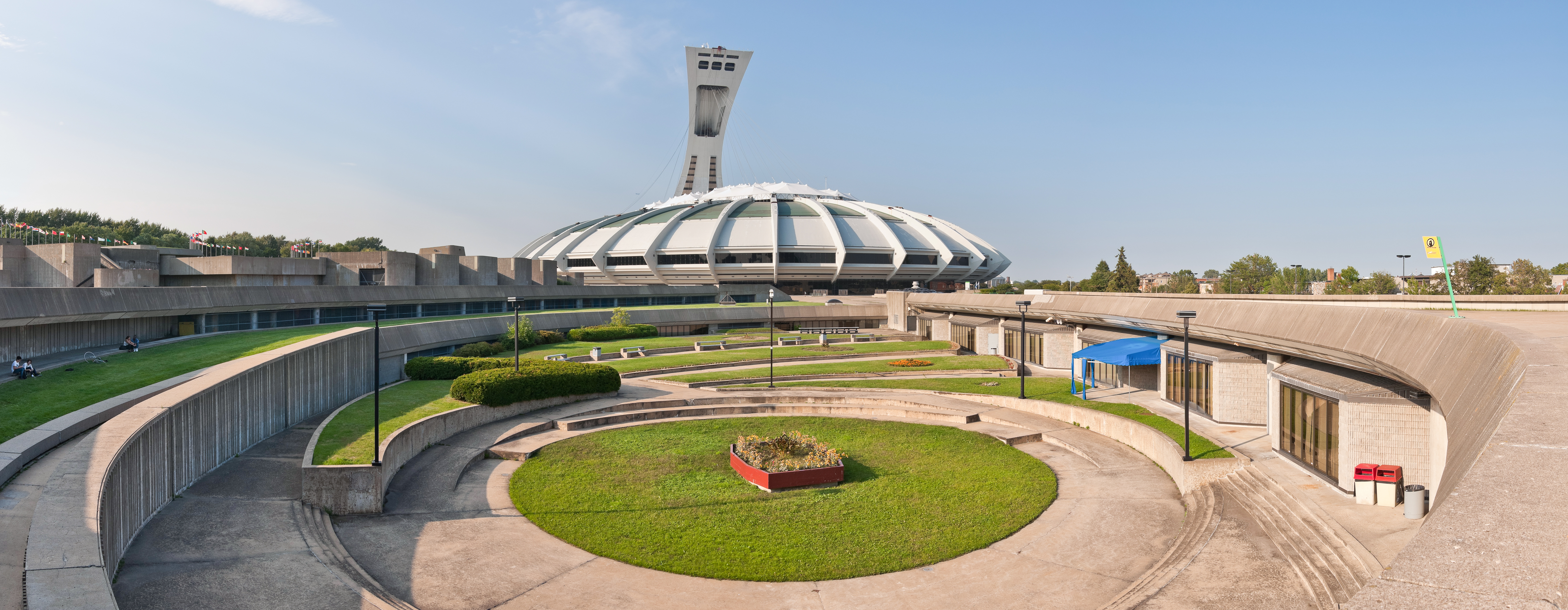 Panoramic view of the Olympic Park of Montreal, Canada. At the center, the Olympic Stadium. The tower is the tallest inclined structure in the world (175 m - 574 ft high). It is possible to reach the top of the structure with the use of an elevator.